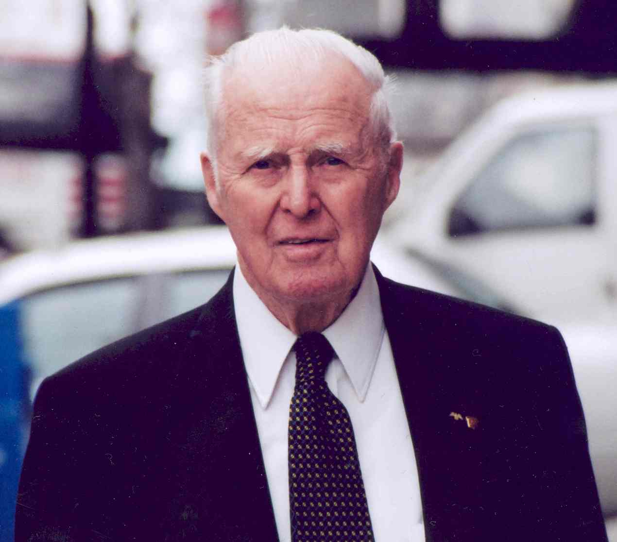 Green Revolution icon and Nobel Peace Laureate Norman Borlaug on his 90th birthday, 2004. Norman Borlaug, 94, told USAID officials that the world should avoid “complacency” in fighting the current food crisis and called for increased agricultural research to create a second Green Revolution. He warned that a new virulent race of wheat stem rust is spreading from Uganda and could reach India and the United States in coming years, severely cutting grain harvests.